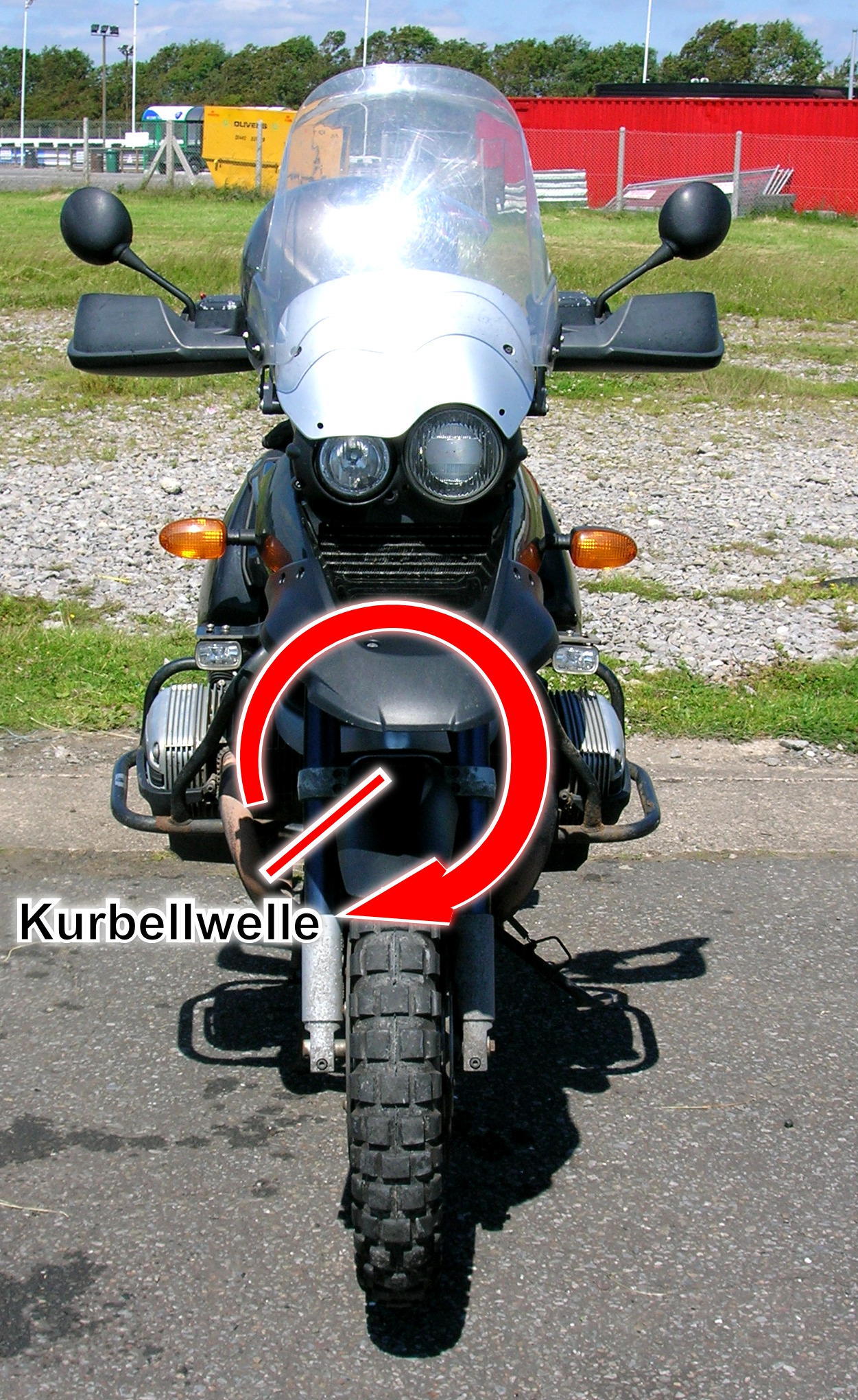 BMW R1150GS motorcycle pictured from the front